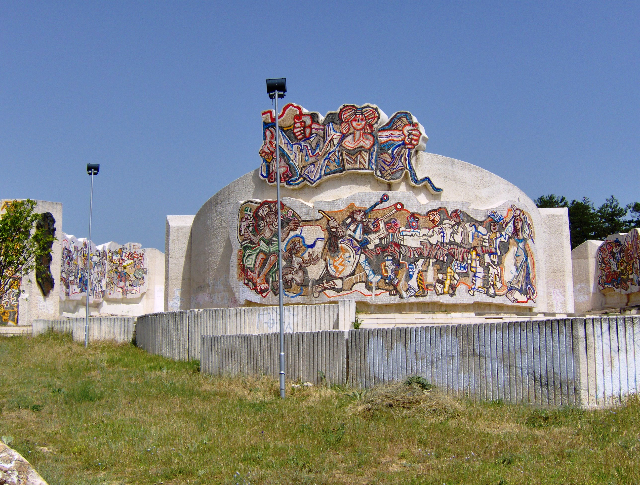 The Monument of Freedom - Kocani